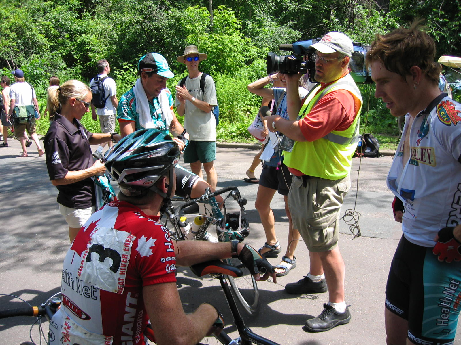 GC Winner John Lieswyn takes a minute to get himself collected before the post-race interview with OLN. Stillwater, Minnesota Criterion in 2005.